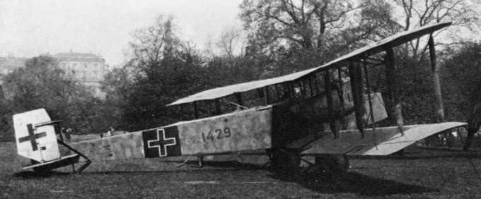 A captured German Friedrichshafen G.IIIa twin engined bomber aircraft (serial 1429) on display in St. James's Park, London (UK).